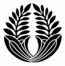 Japanese family crest "Ichinoseki Myōga mon", crest of Ichinoseki Tamura clan